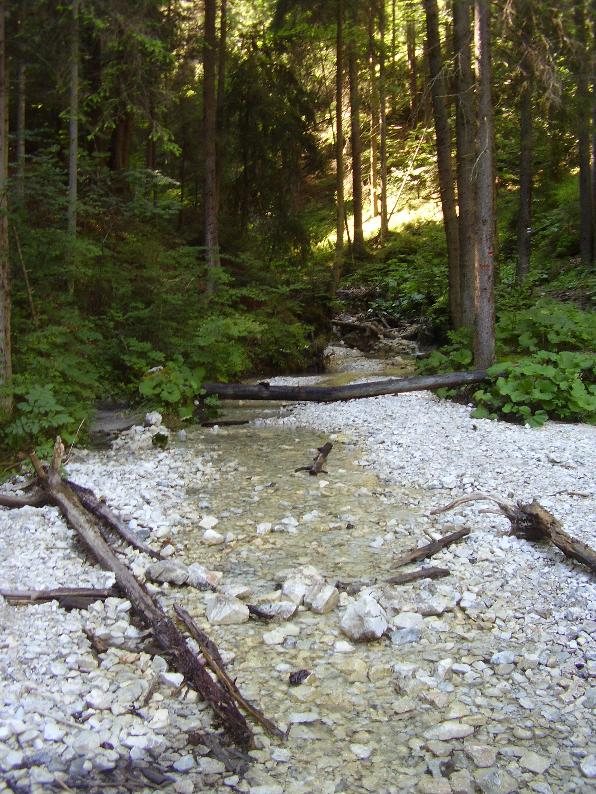 Brook Malý Kyseľ flow from Malý Kyseľ canyon